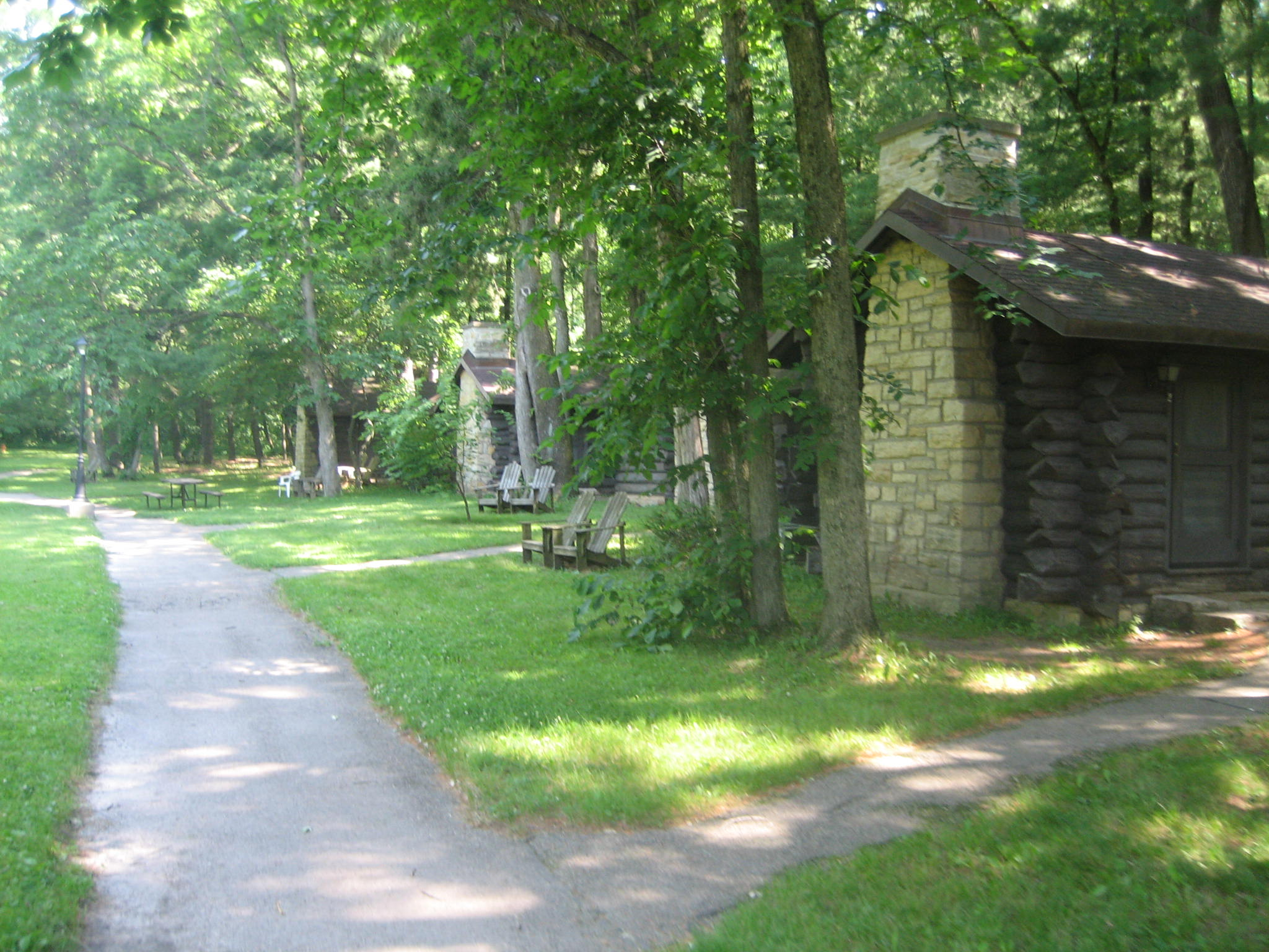 White Pines Forest State Park Lodge and Cabins, Ogle County, Illinois, United States. U.S. National Register of Historic Places.